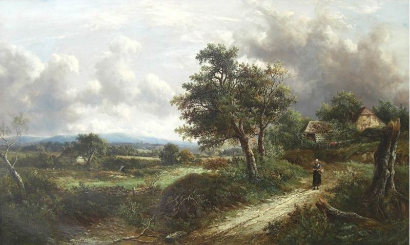 Scene near Cheltenham (oil painting)